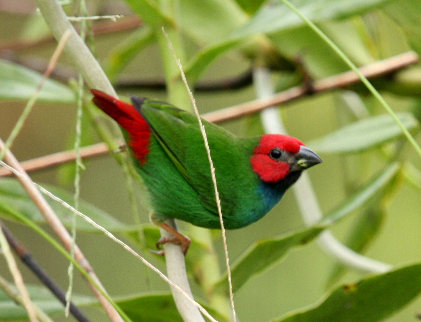 Fiji Parrotfinch (Erythrura pealii) Savusavu, Vanua Levu, Fiji Isles